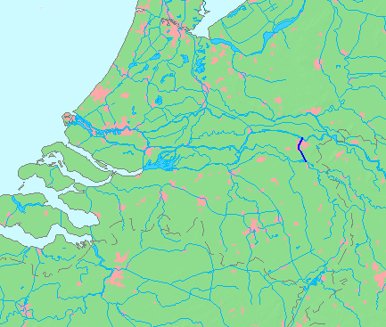 Location of a waterway (river/canal) in the Netherlends